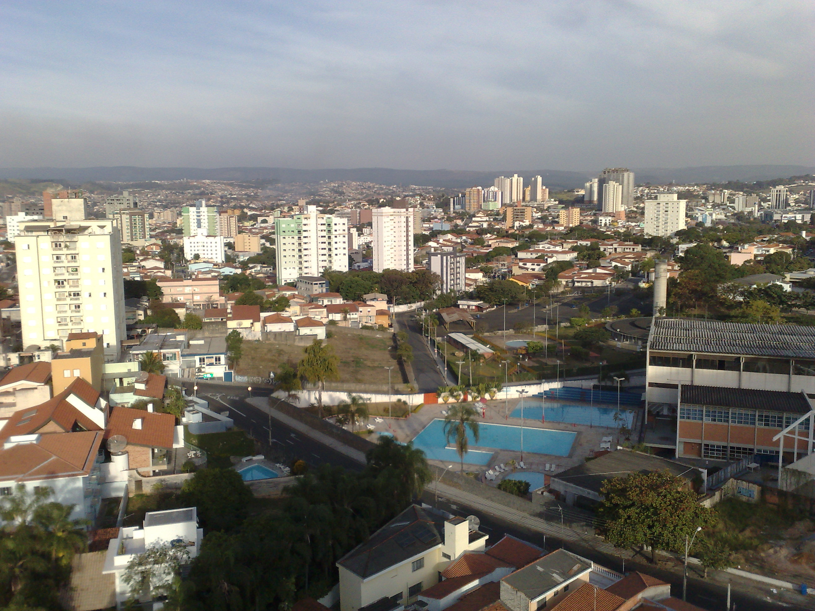 Picture of Sorocaba - Mangal